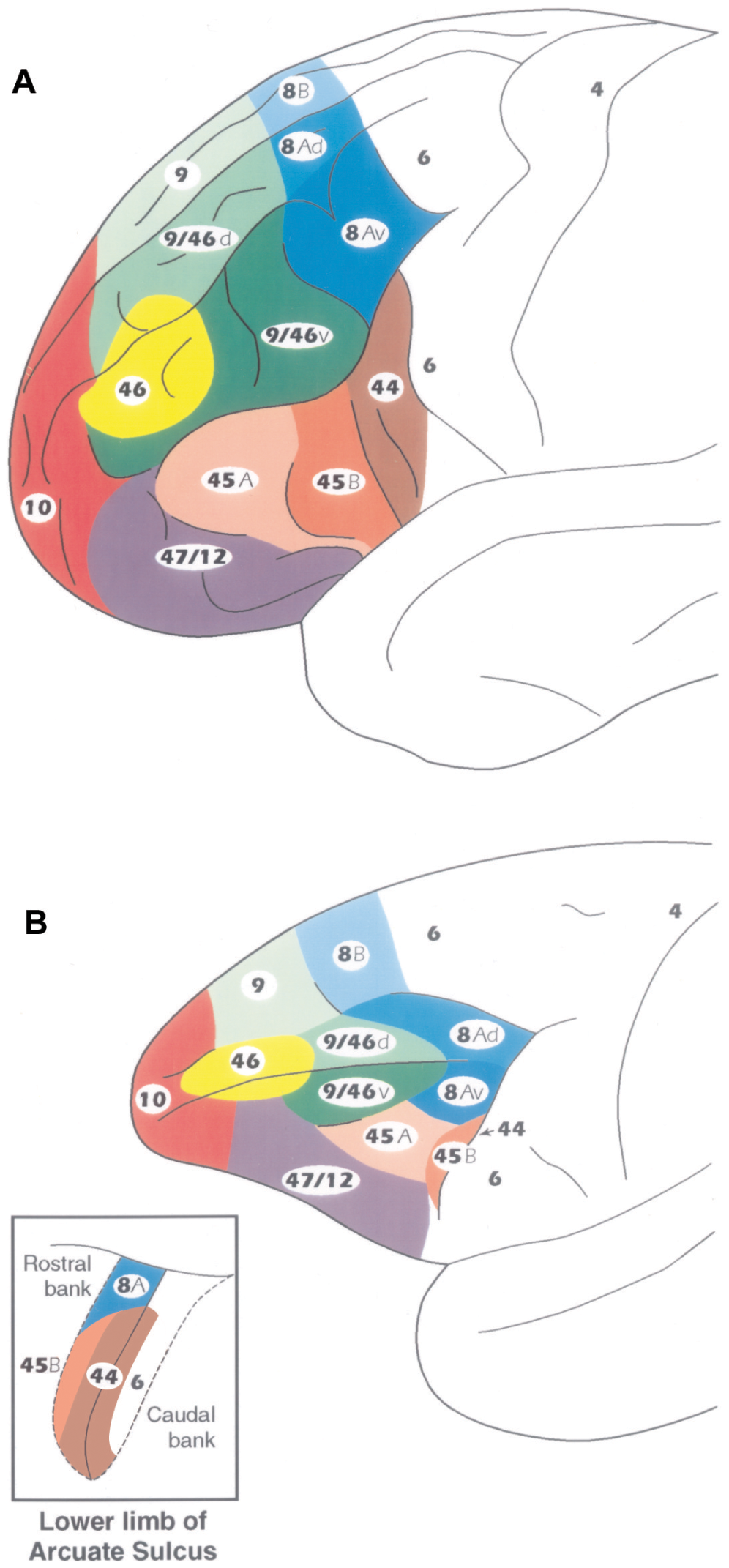 Architectonic map of the human and macaque monkey prefrontal cortex. (A) Lateral surface of the human prefrontal cortex. (B) Lateral surface of the macaque monkey prefrontal cortex. The inset in (B) shows the opened anterior and posterior banks of the lower (inferior) limb of the arcuate sulcus of the monkey to illustrate the position of area 44 that lies in the fundus of this part of the sulcus. Area 45 extends anterior to it as far as the IPD on the surface of the inferior frontal convexity. The caudal subdivision of area 45 (i.e., area 45B) lies immediately in front of area 44 on the anterior bank of the sulcus and extends as far as the lip of the sulcus. Area 45A occupies the dorsal part of the inferior frontal convexity and is succeeded ventrally by area 47/12.